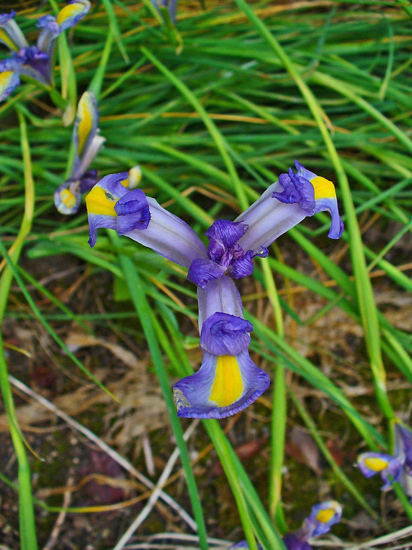 Iris xiphium, Iridaceae, Spanish Iris, flower; Botanical Garden KIT, Karlsruhe, Germany.